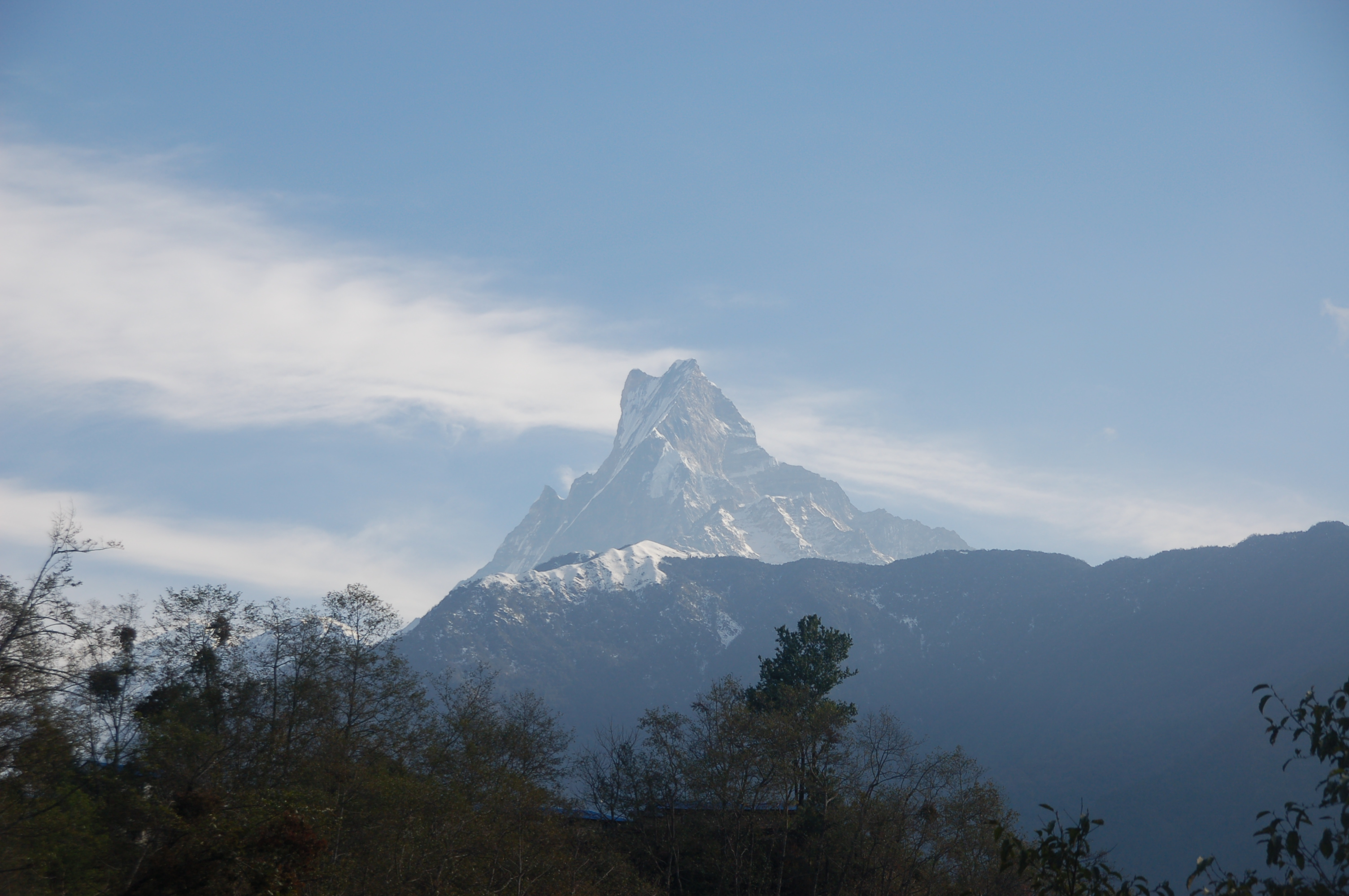 Machapuchare from Ghanduk